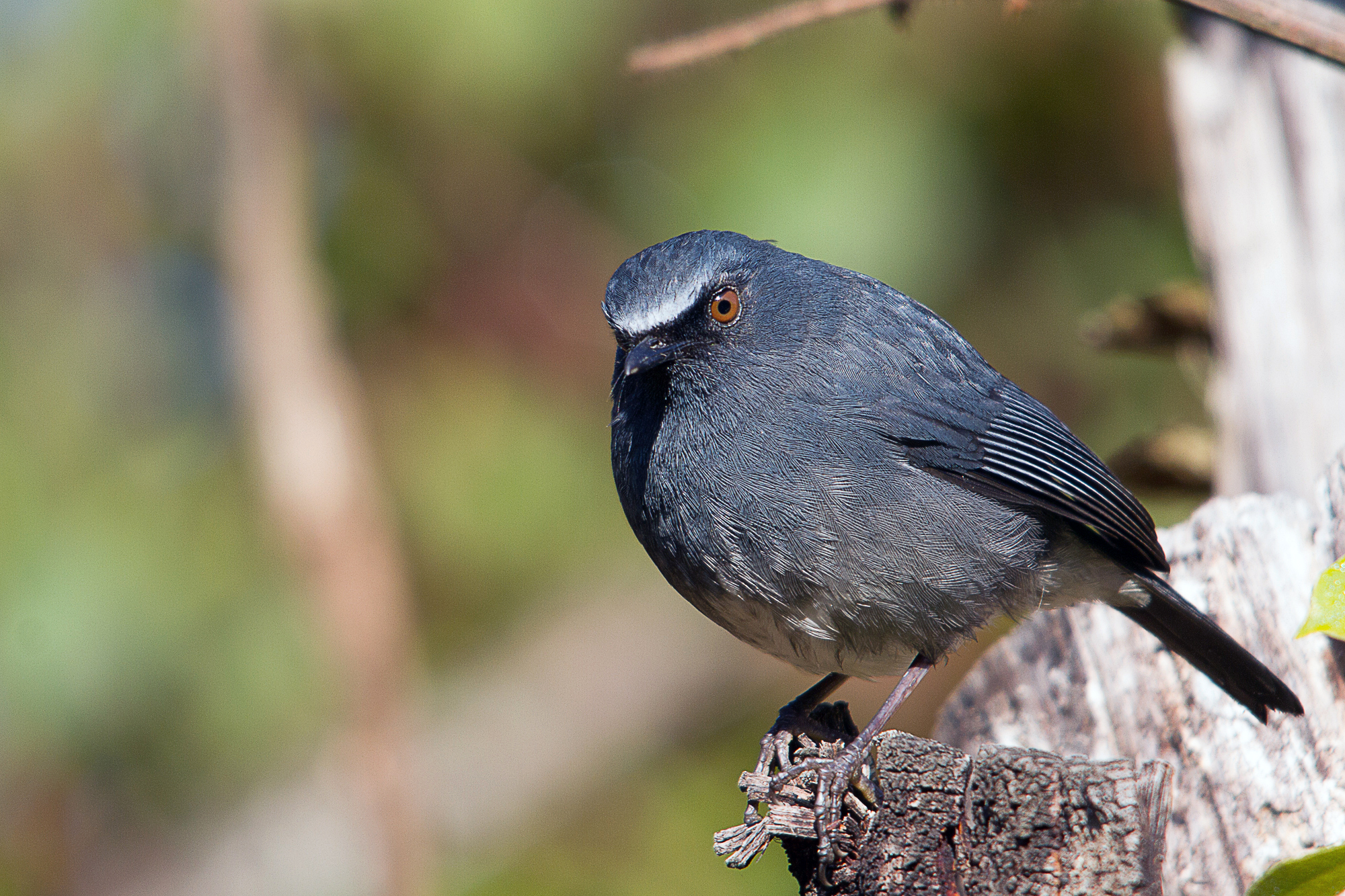 White-bellied Blue Robin Myiomela albiventris, Kerala. Also known as White Bellied Shortwing